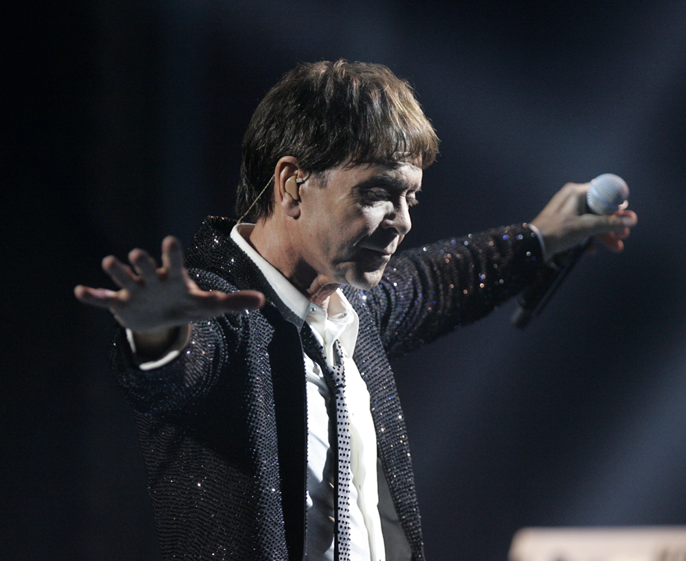 Cliff Richard performs at State Theatre; Sydney, Australia.